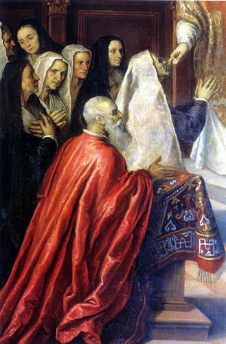 Pasquale Cicogna hearing mass in the Oratory of the Crociferi.